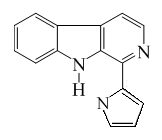 1-(1H-pyrrol-2-yl)-9H-b-carboline structure